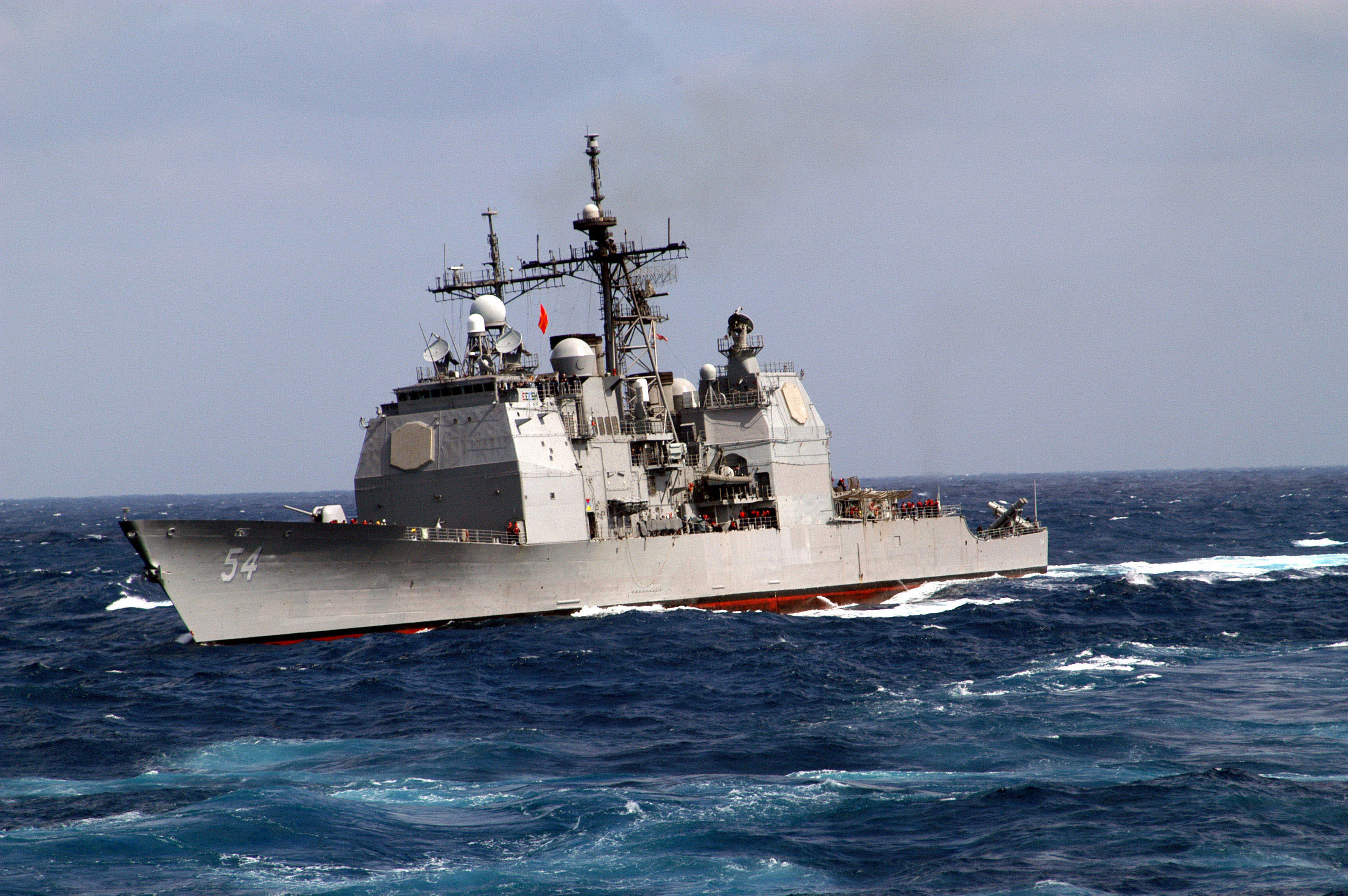 East China Sea (Mar. 28, 2003) -- The guided missile cruiser USS Antietam (CG 54) underway in the rough seas of the East China Sea. Antietam is part of the USS Carl Vinson (CVN 70) Battle Group. Antietam and Carl Vinson have just completed participating in Exercise Foal Eagle and are continuing their deployment in the western Pacific Ocean. Exercise Foal Eagle is an annual joint and combined field training exercise between the U.S. and Republic of Korea armed forces. The exercise is designed to strengthen relationships and improve interoperability between both nations through real world training scenarios. U.S. Navy photo by Photographer's Mate Airman Aaron Hampton. (RELEASED)